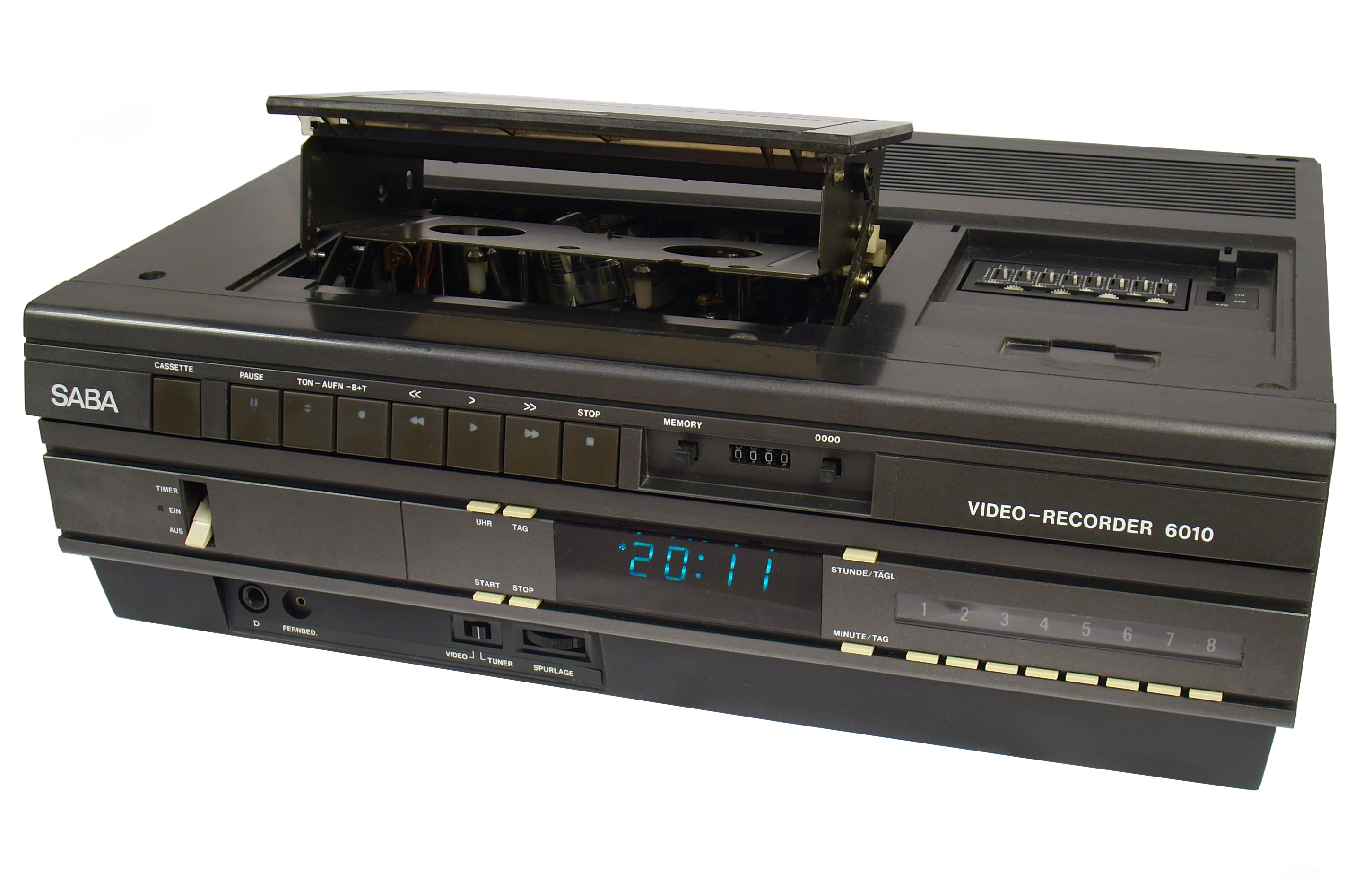 SABA VR 6010 - early second generation VHS recorder (JVC HR7200 clone) from 1981